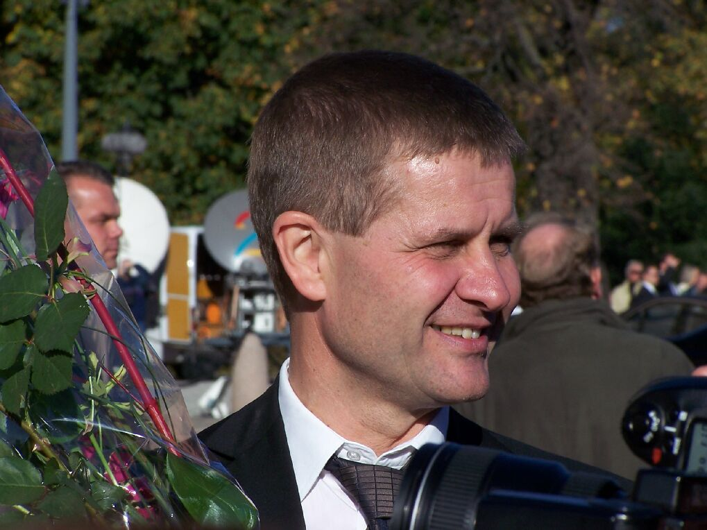 Erik Solheim, Norwegian Minister of Development 2005